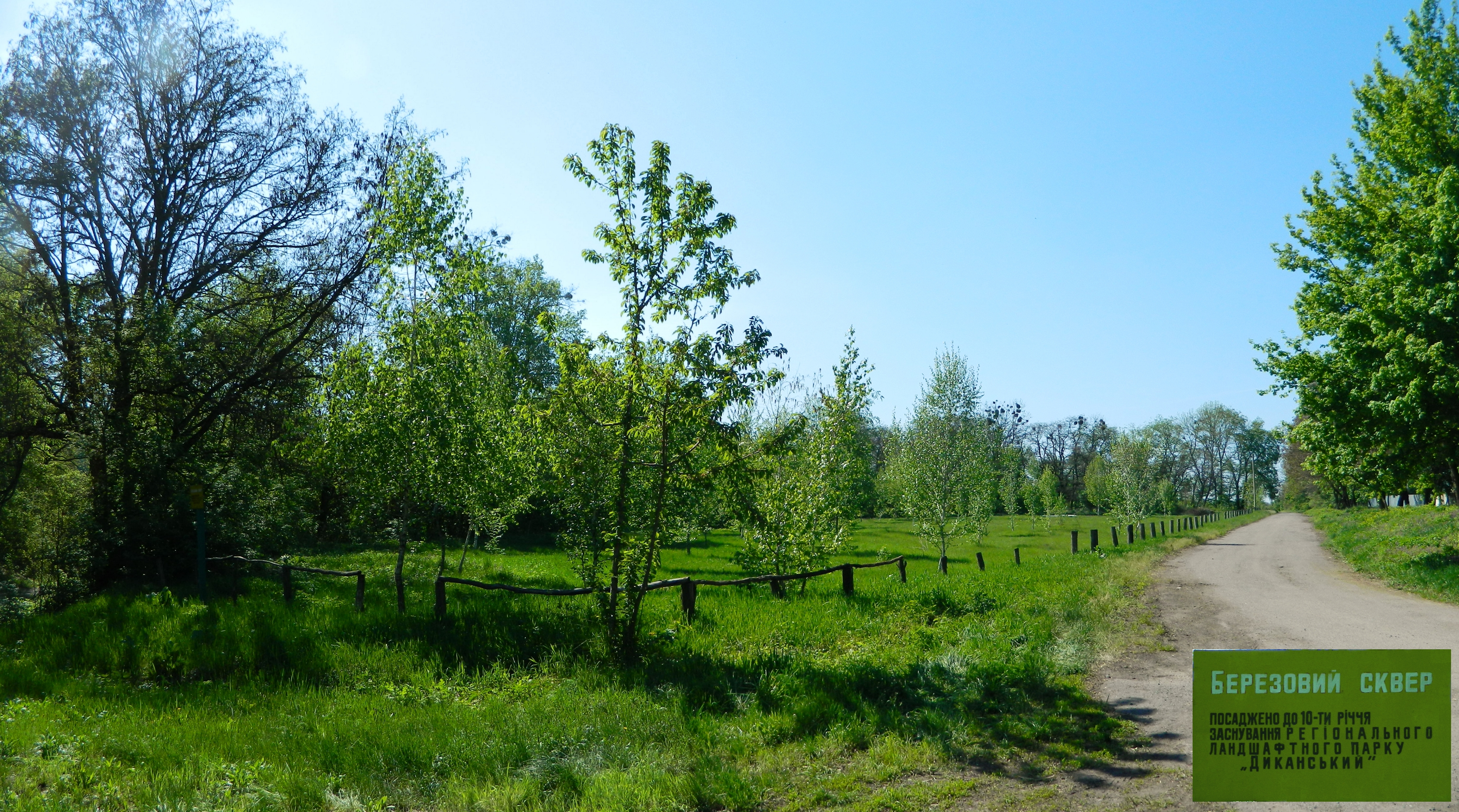 Ukraine. Dykanka. Park Kochubeivs'kyi. Birch Square